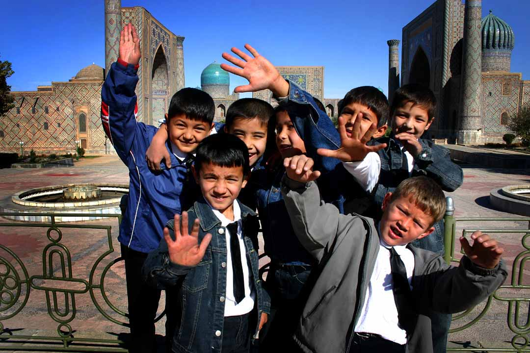 A small group of young Uzbekistani boys at a mosque in Uzbekistan.